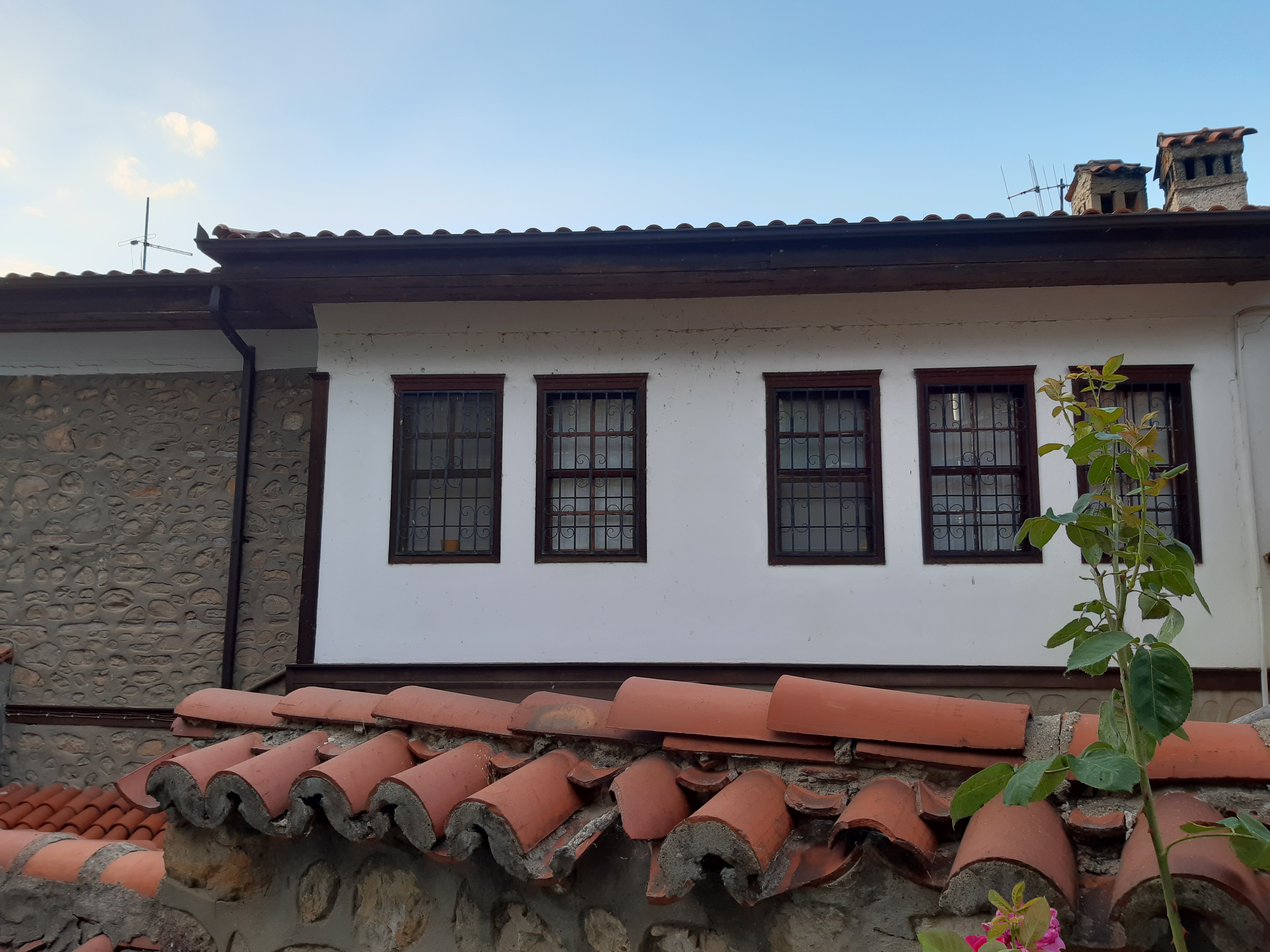 Paliuris Mansion